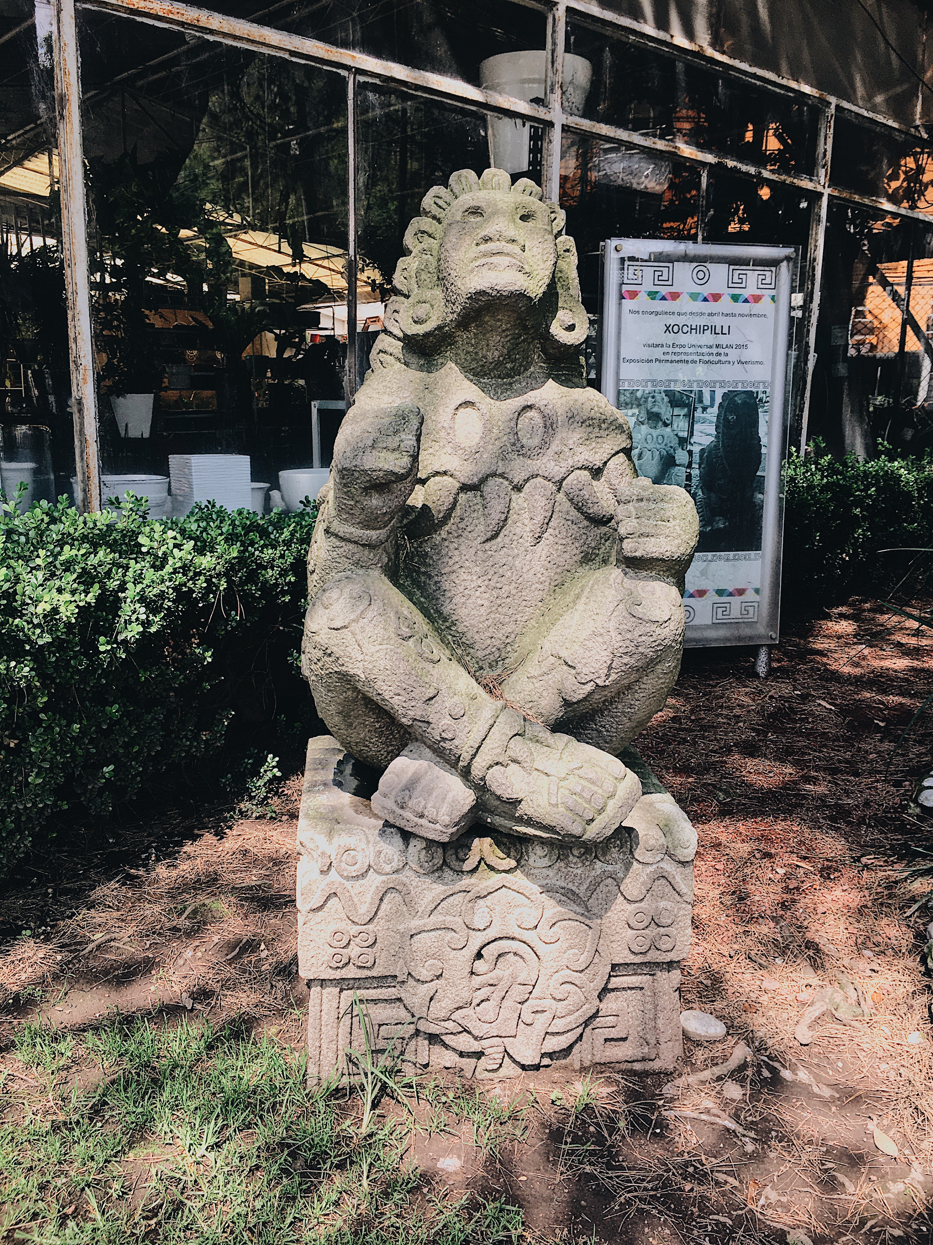 This is an sculpture of Xochipilli. In Mexican mythology, he is known as the prince of flowers, this is located in the nurseries of Coyoacán.